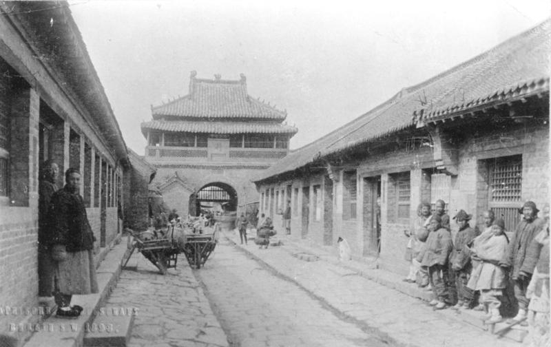 Jimo, Shandong